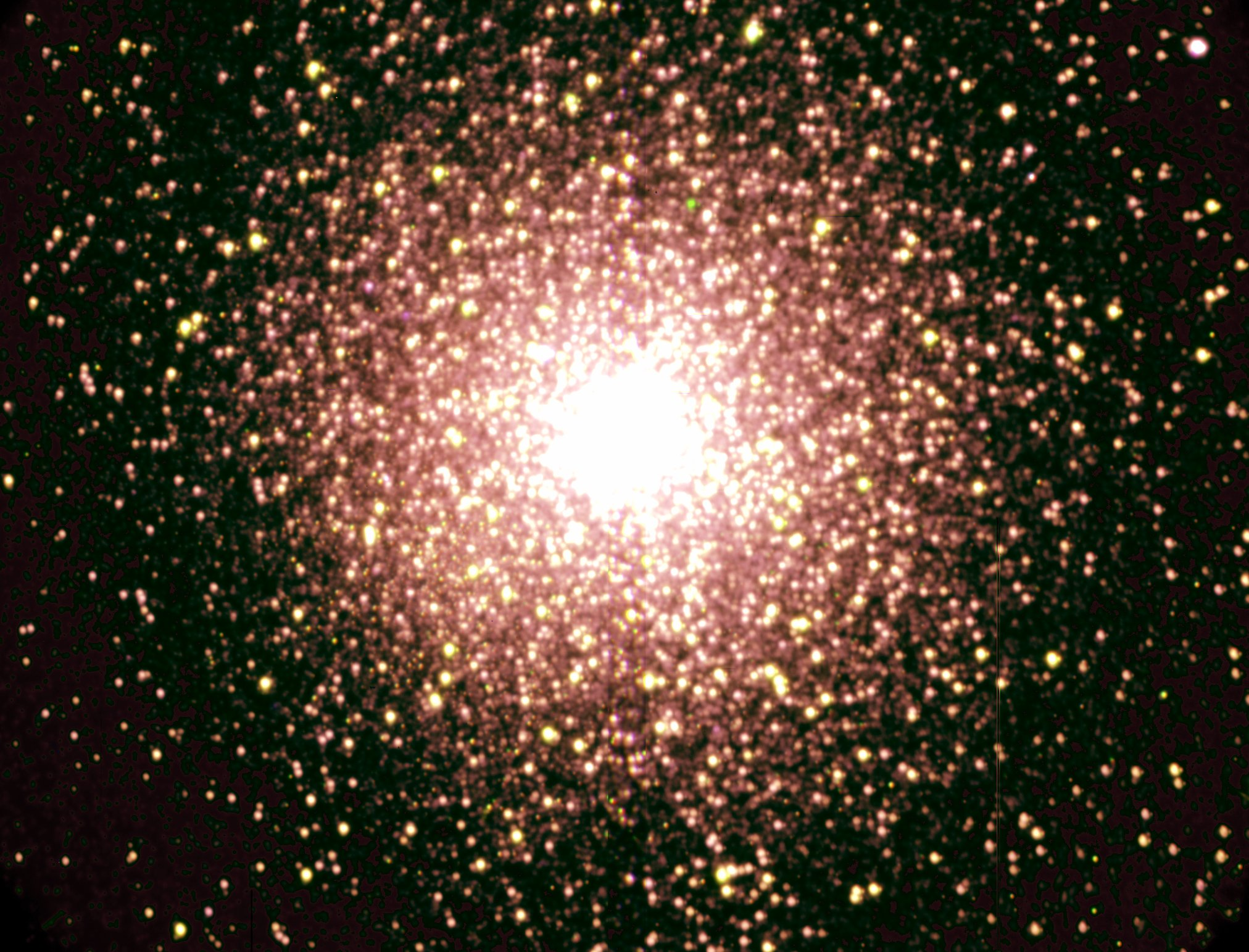 Globular cluster 47 Tucanae (also known as NGC 104). Photo taken by the Southern African Large Telescope (SALT)